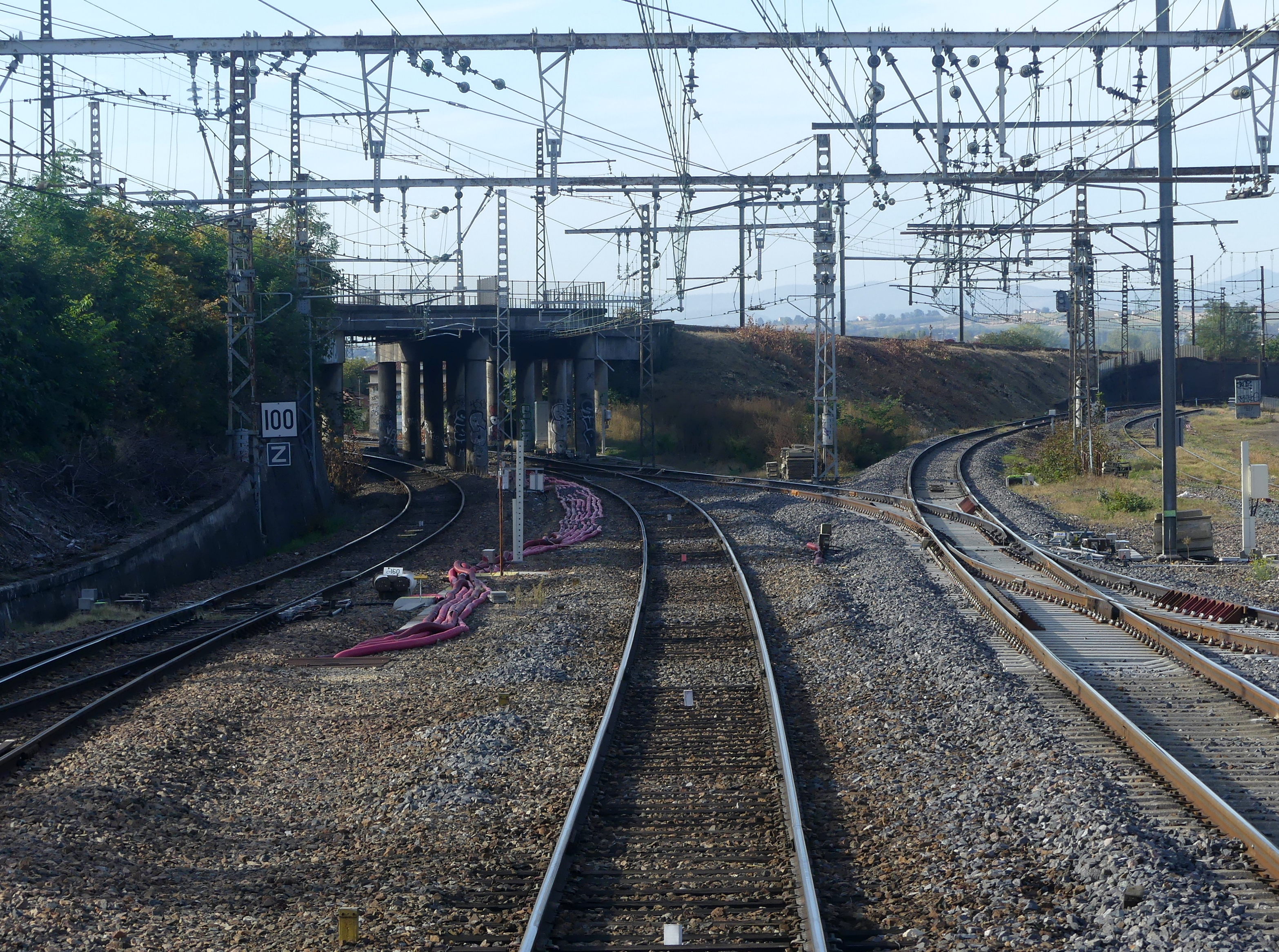 Sight of the bifurcation between two railway lines : Paris to Marseille on the bridge + on the right, and the line to Ambérieu and the Alps ahead under the bridge, after Mâcon in Saône-et-Loire, France.